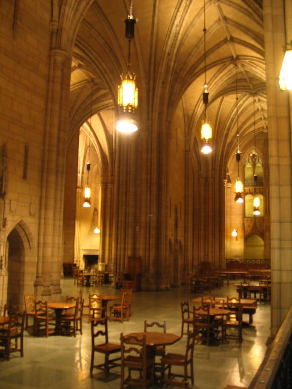 interior shot of Cathedral of Learning, University of Pittsburgh, PA